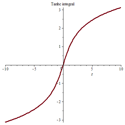 Tanhc integral 2D plot